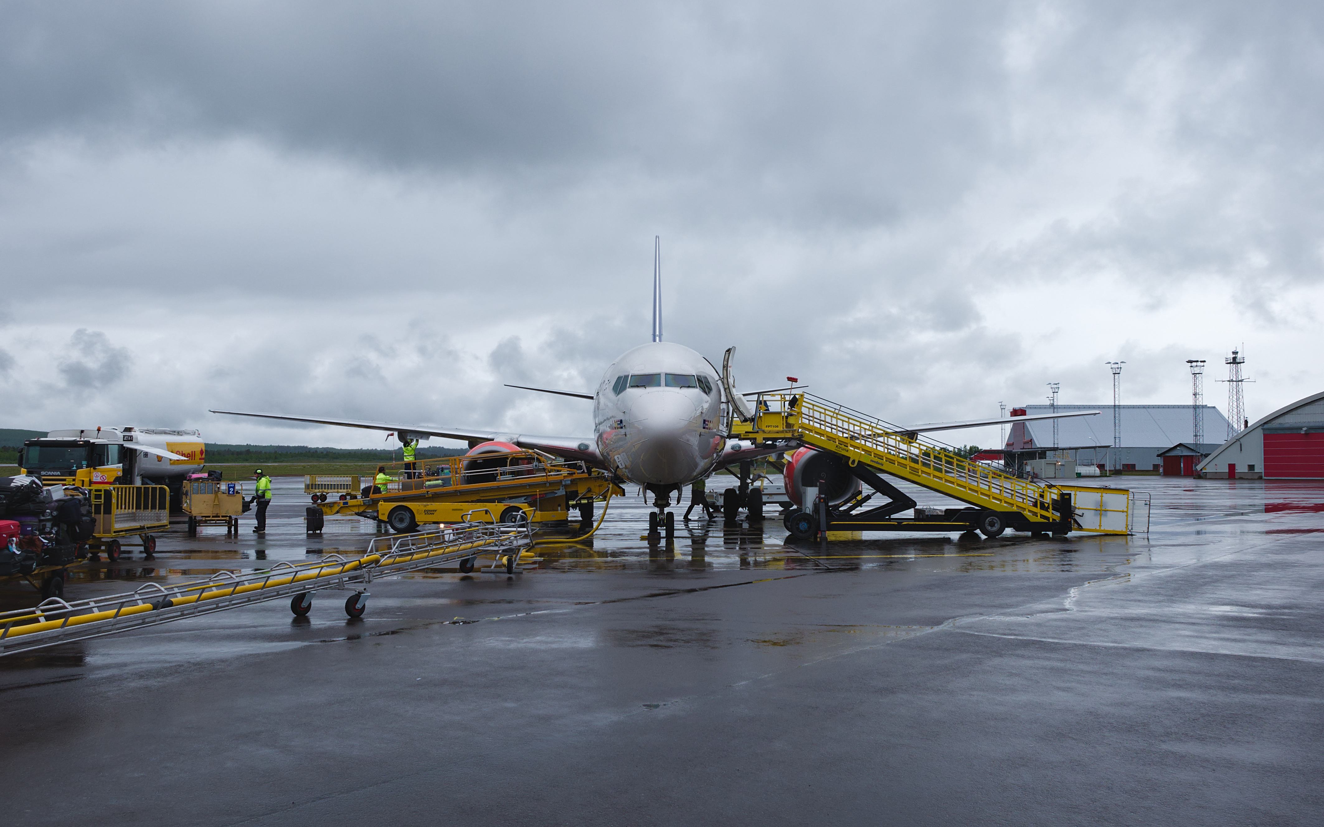 SAS Boeing 737-600 parked at Kiruna Airport (Sweden)